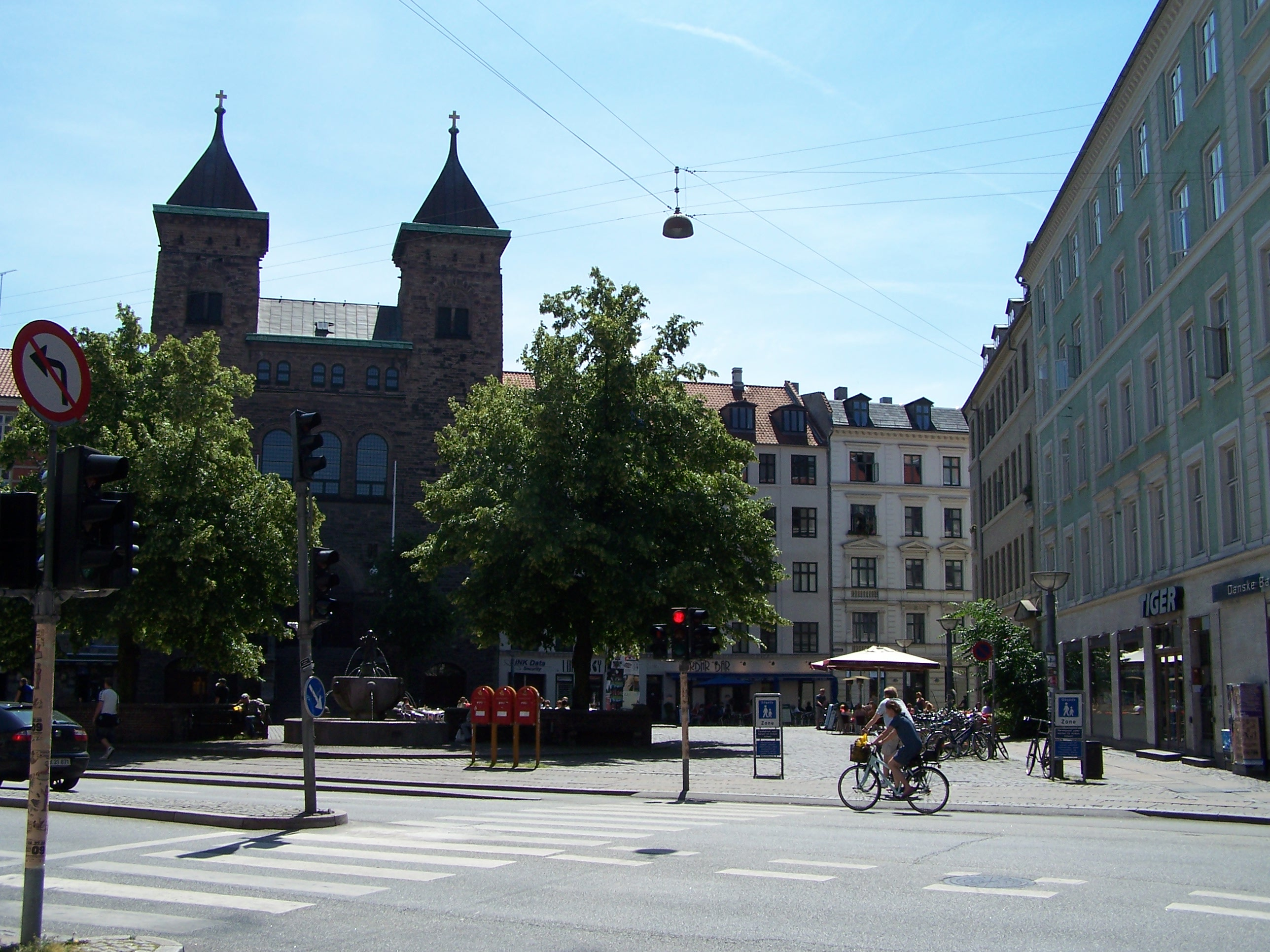 Vesterbro Copenhagen